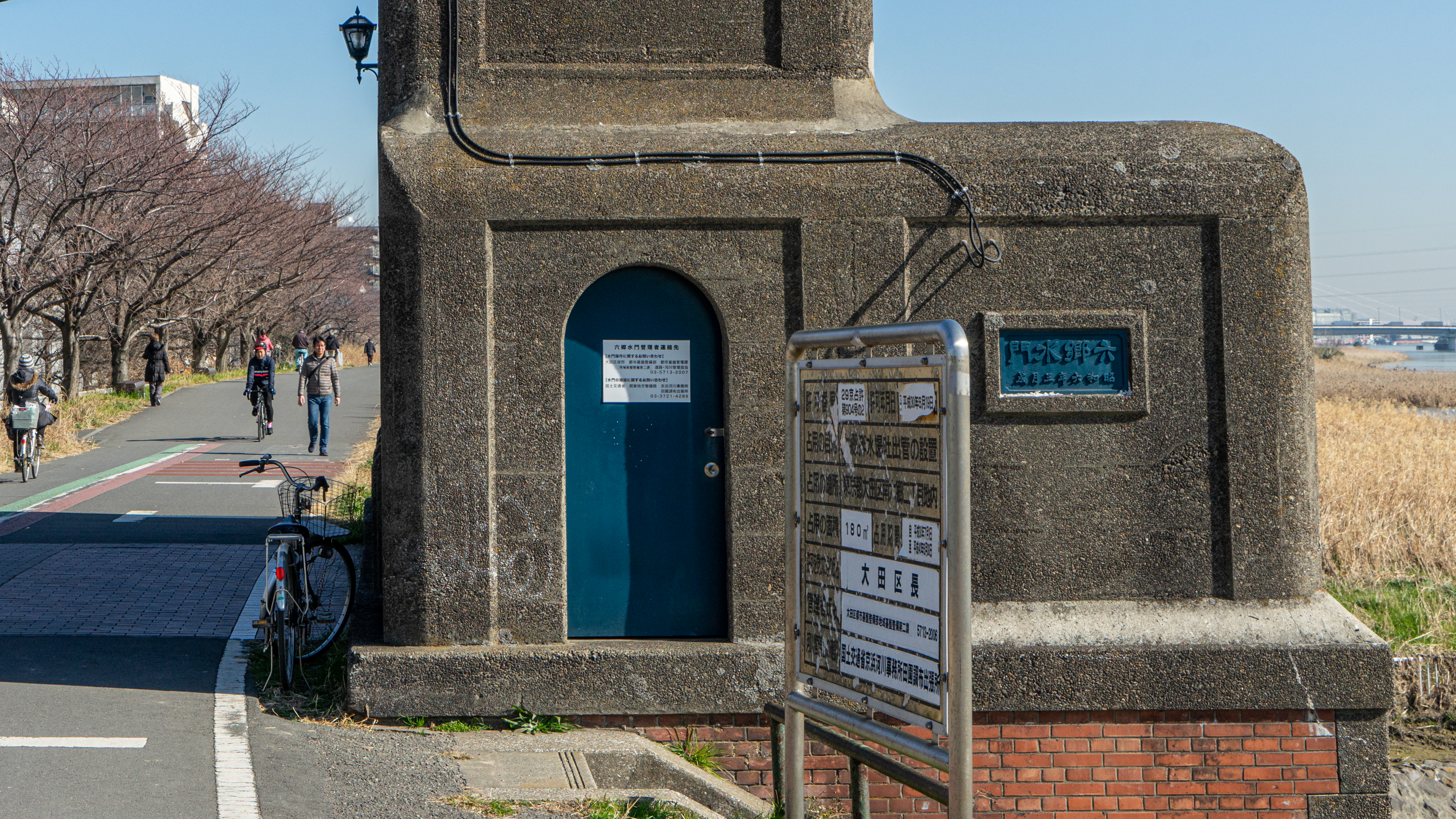 The Rokugo Sluice in Ota Ward, Tokyo, Japan